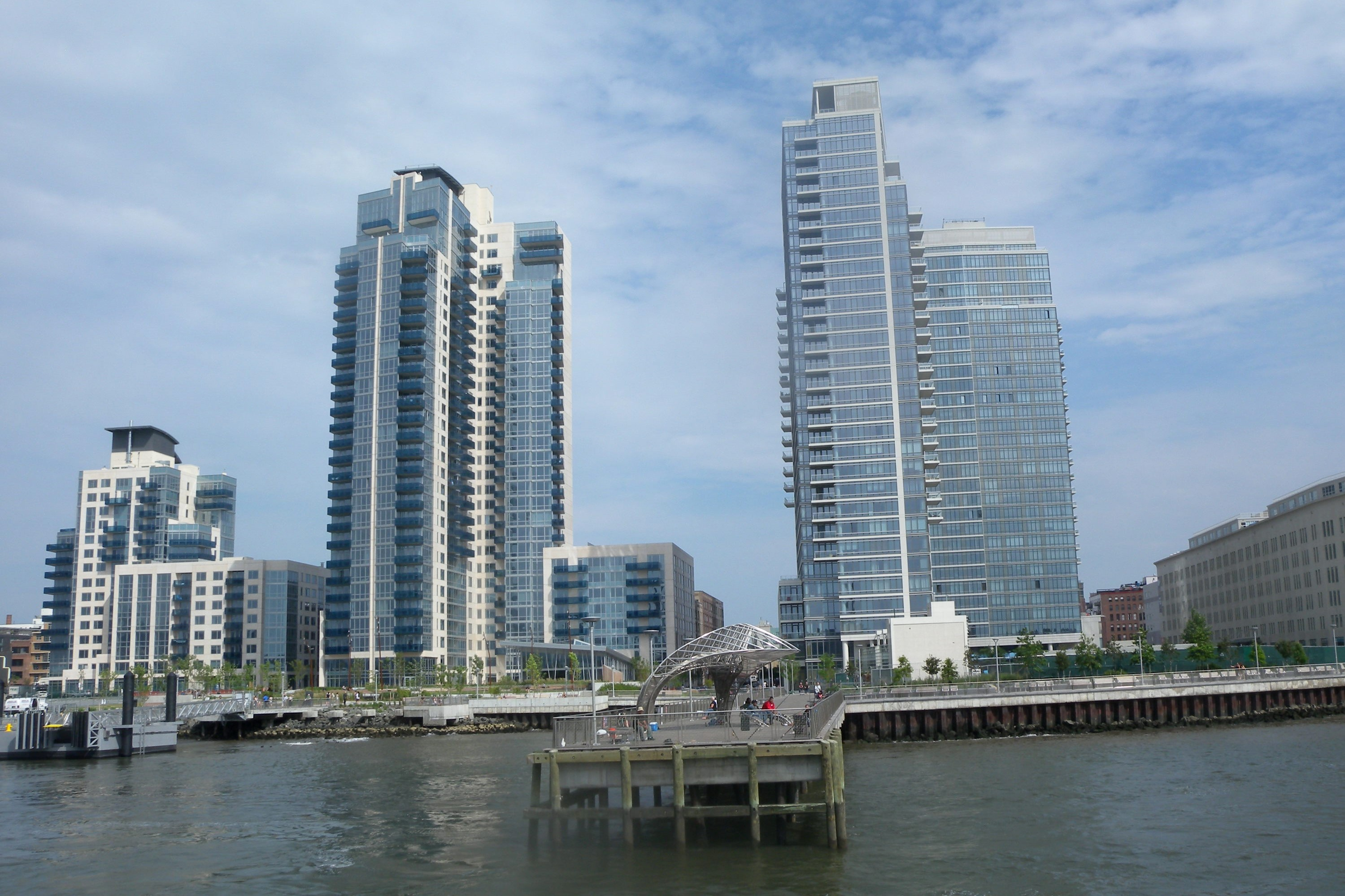 Looking east from ferry at pier flanked by new "The Edge" apartments on a mostly sunny midday.